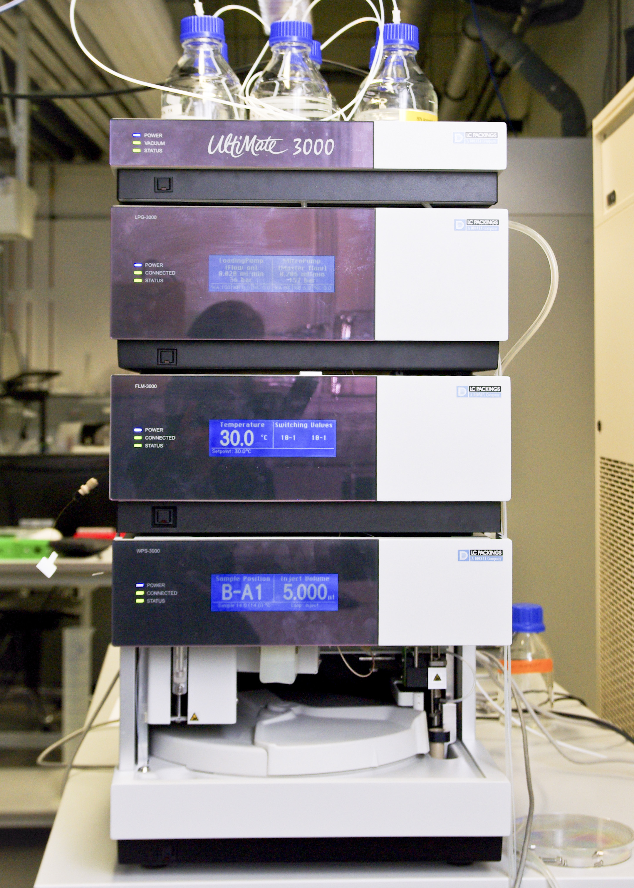 UltiMate 3000 HPLC